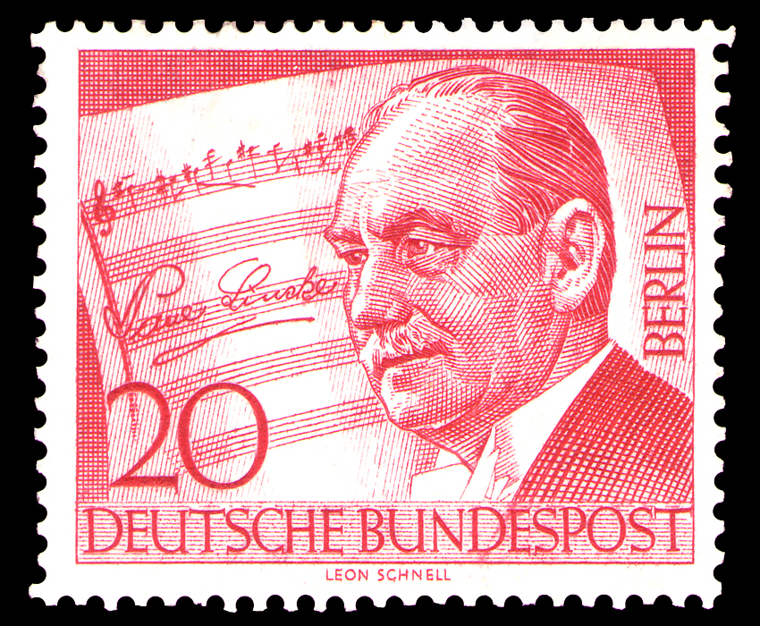 stamp for 10 years of death of Paul Linke (1866-1946) Graphics by Schnell Ausgabepreis: 20 Pfennig First Day of Issue / Erstausgabetag: 3. September 1956 Michel-Katalog-Nr: 156 (Berlin)